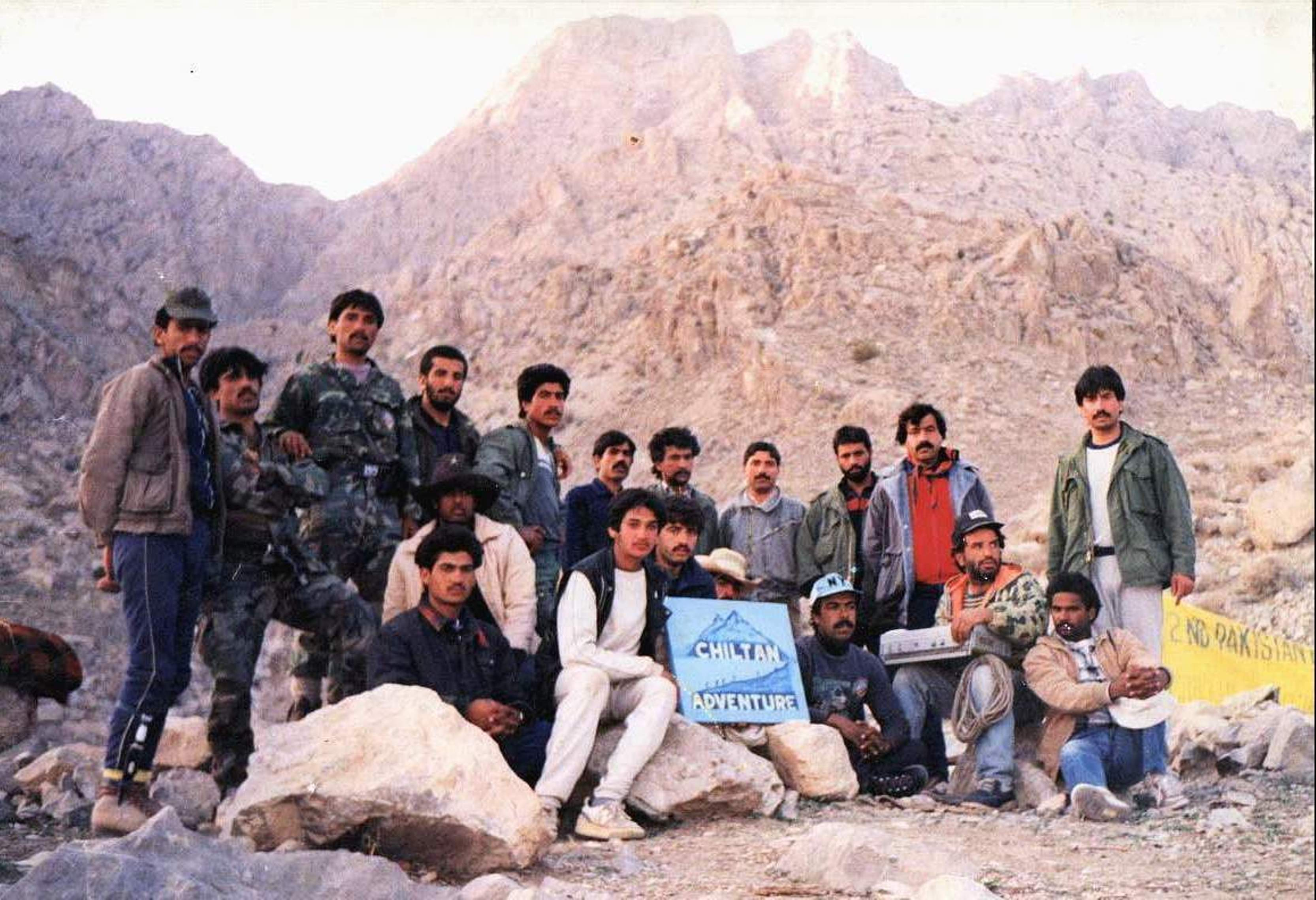 Chiltan Adventurers under command of Hayatullah Durrani at Takatu Mount 1988.